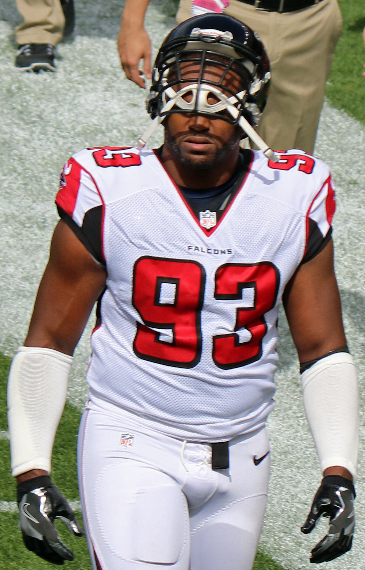 Dwight Freeney, a player on the National Football League.